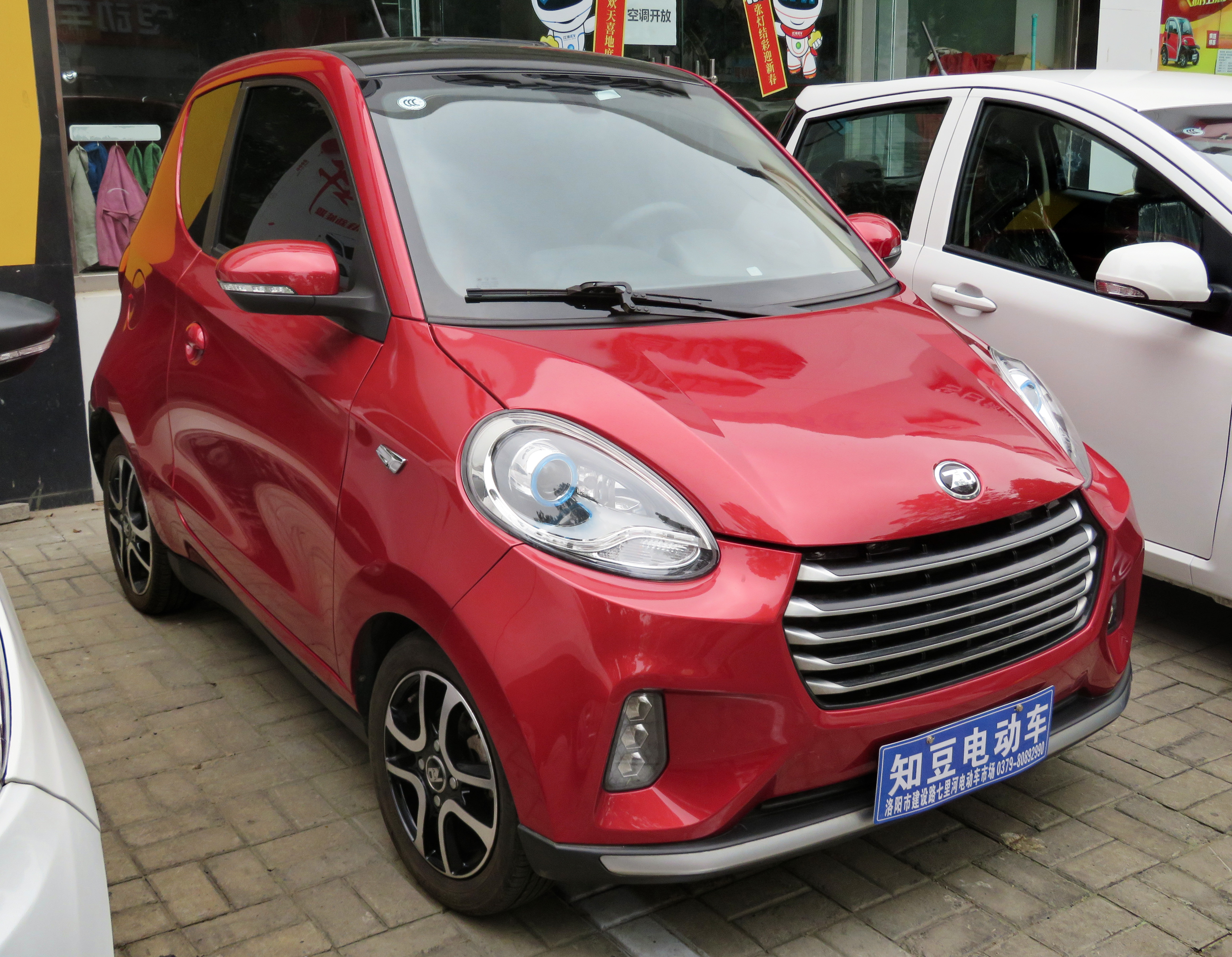 A 2018 Geely-Zhidou D2S photographed in Xigong District, Luoyang, Henan province, China